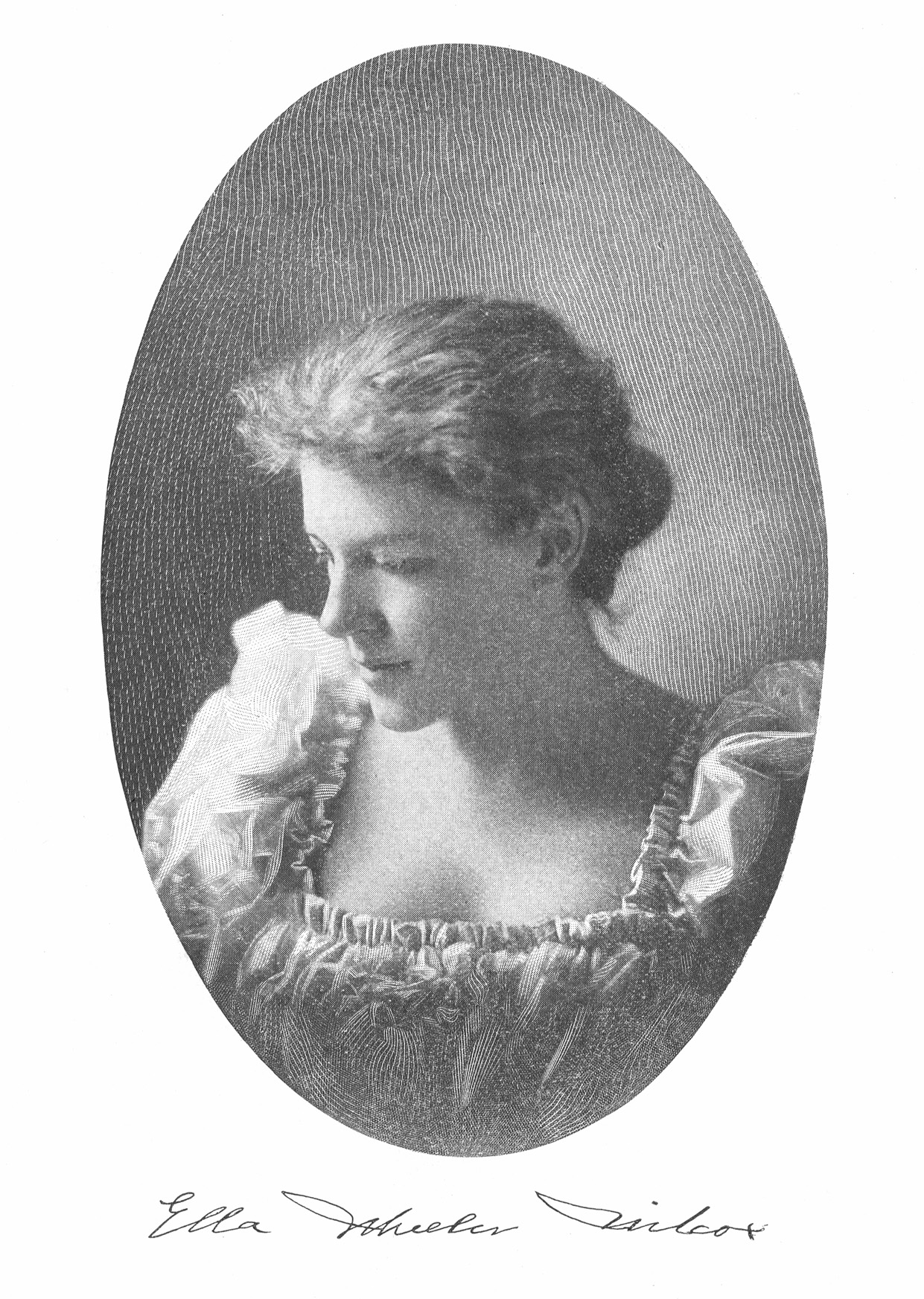 Portrait of Ella Wheeler Wilcox, with signature. Frontispiece from Custer and other Poems (1896).